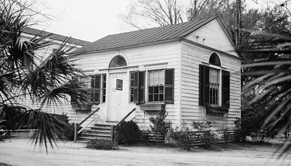 Library, Wichman Street & North Miller (moved from Fishburn, Walterboro (Colleton County, South Carolina) - cropped This image or media file contains material based on a work of a United States Department of the Interior employee, created as part of that person's official duties. As a work of the U.S. federal government, such work is in the public domain in the United States. See the Department of the Interior copyright policy for more information. This file comes from the Historic American Buildings Survey (HABS), Historic American Engineering Record (HAER) or Historic American Landscapes Survey (HALS). These are programs of the National Park Service established for the purpose of documenting historic places. Records consist of measured drawings, archival photographs, and written reports. When reusing please credit: Library of Congress, Prints & Photographs Division, SC,15-WALT,2-1 This tag does not indicate the copyright status of the attached work. A normal copyright tag is still required. See Commons:Licensing. This work is in the public domain in the United States because it is a work prepared by an officer or employee of the United States Government as part of that person’s official duties under the terms of Title 17, Chapter 1, Section 105 of the US Code. Note: This only applies to original works of the Federal Government and not to the work of any individual U.S. state, territory, commonwealth, county, municipality, or any other subdivision. This template also does not apply to postage stamp designs published by the United States Postal Service since 1978. (See § 313.6(C)(1) of Compendium of U.S. Copyright Office Practices). It also does not apply to certain US coins; see The US Mint Terms of Use. This file has been identified as being free of known restrictions under copyright law, including all related and neighboring rights. Object location32° 54′ 12″ N, 80° 39′ 08″ W